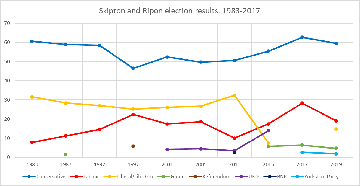 Election results for Skipton and Ripon from 1983 to 2017.